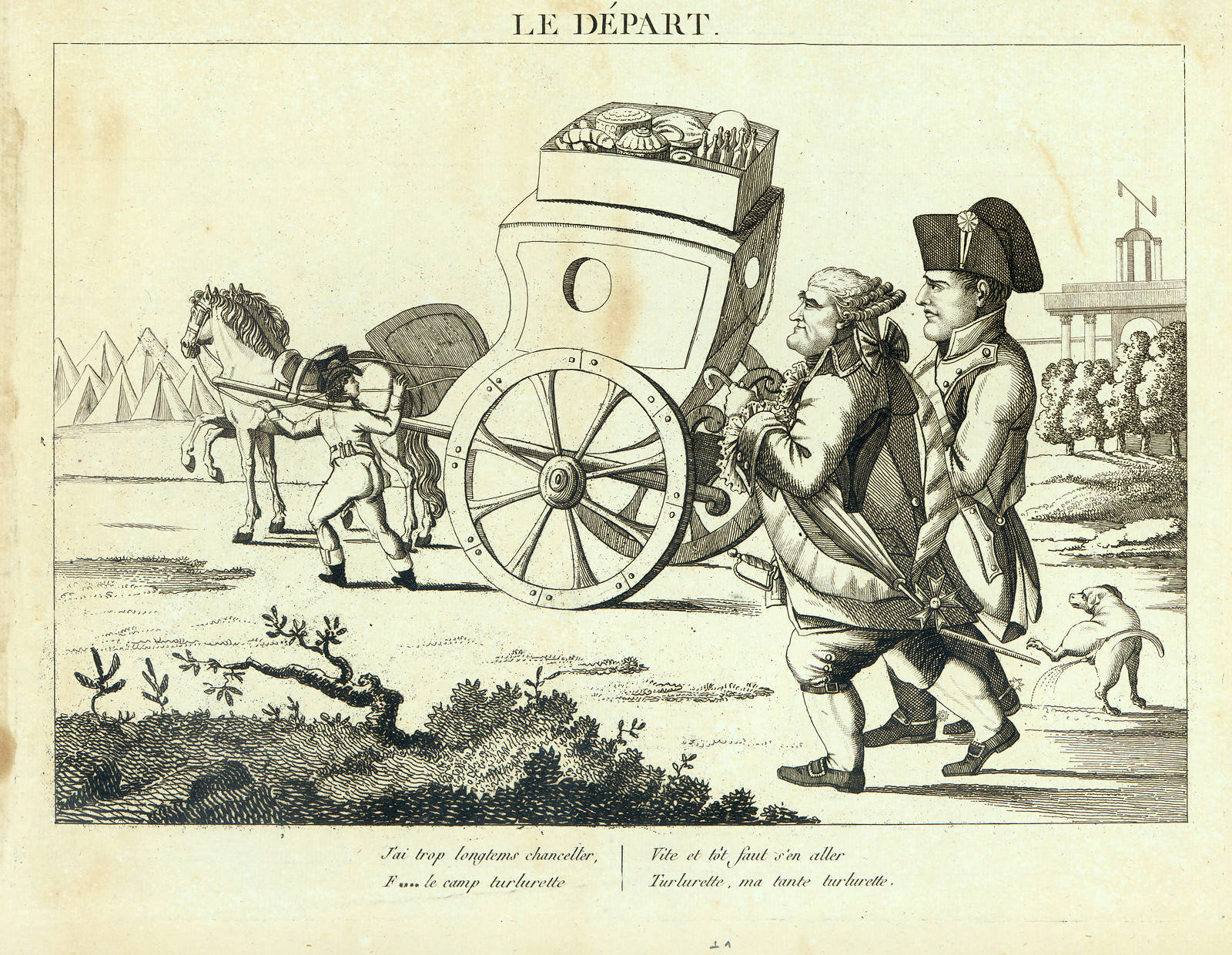 Napoleon and Cambacérès leave Fontainebleau for exile on the island of St. Helena. Cambacérès is ridiculed for his gluttony and homosexuality, and Napoleon for his baseness (note the dog urinating on him). The ditty in the caption depicts Napoleon as abandoning his soldiers ("screw the encampment") and making a fast getaway, the coach carrying food and wine. The coachman is wearing tight pants, perhaps identifying him as homosexual. The tent camp to the left is the Allied occupation of Paris. The term "aunt turlurette" was used widely to refer to Cambacérès, mocking his effeminite demeanor. The word "chanceller" in the verse below the image is a double entendre, referring both to Cambacérès title as chancellor and his reputation for wavering. Geographic coverage: France Subjects (LCSH): Political cartoons; History--Caricatures & cartoons; Napoleon I, Emperor of the French, 1769-1821; Cambacérès, Jean Jacques Régis de, 1753-1824